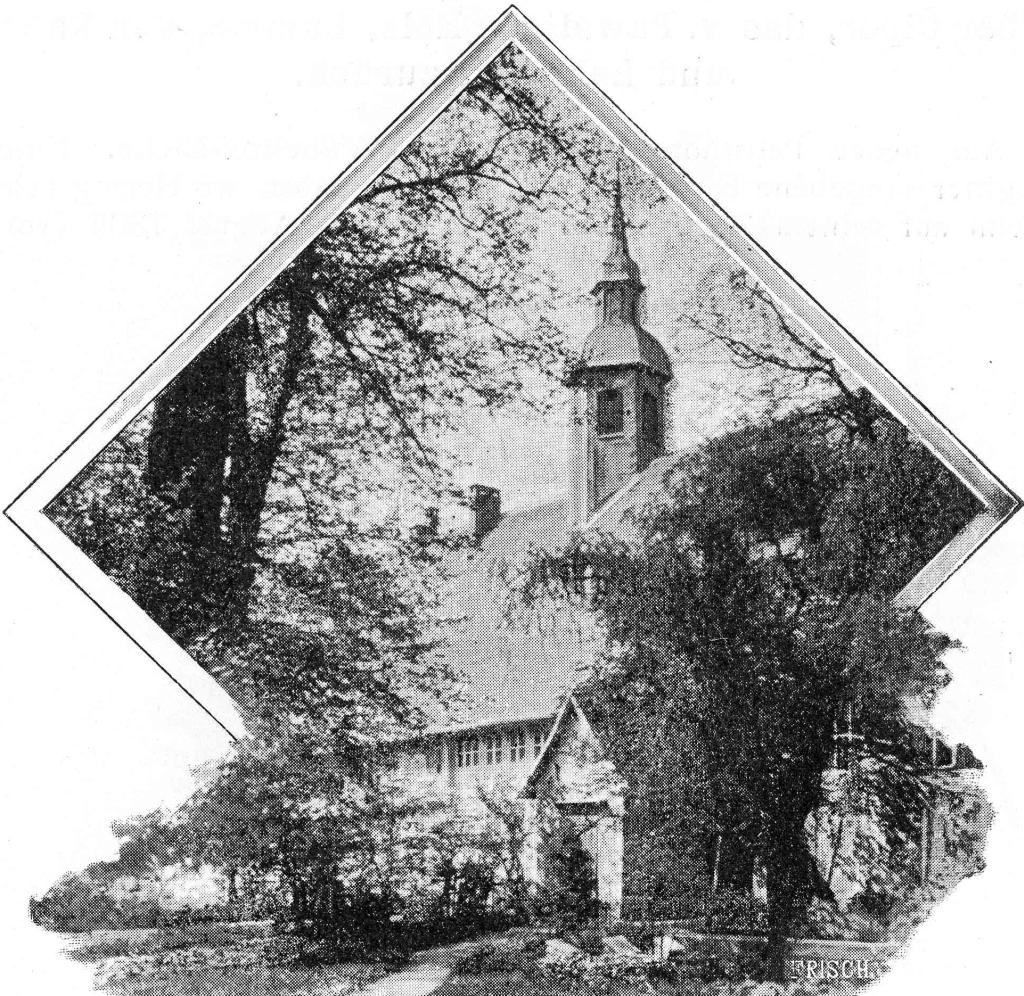 Braunschweig, Germany: Monastery of the Cross: The Church around 1899.)